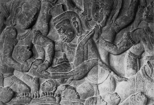 Bas relief of a massage abortion. The operator is a demon rather than a traditional birth attendant. The pregnant woman’s abdomen is darkened from being touched by pilgrims to Angkor Wat. The bas relief dates from about A.D. 1150.